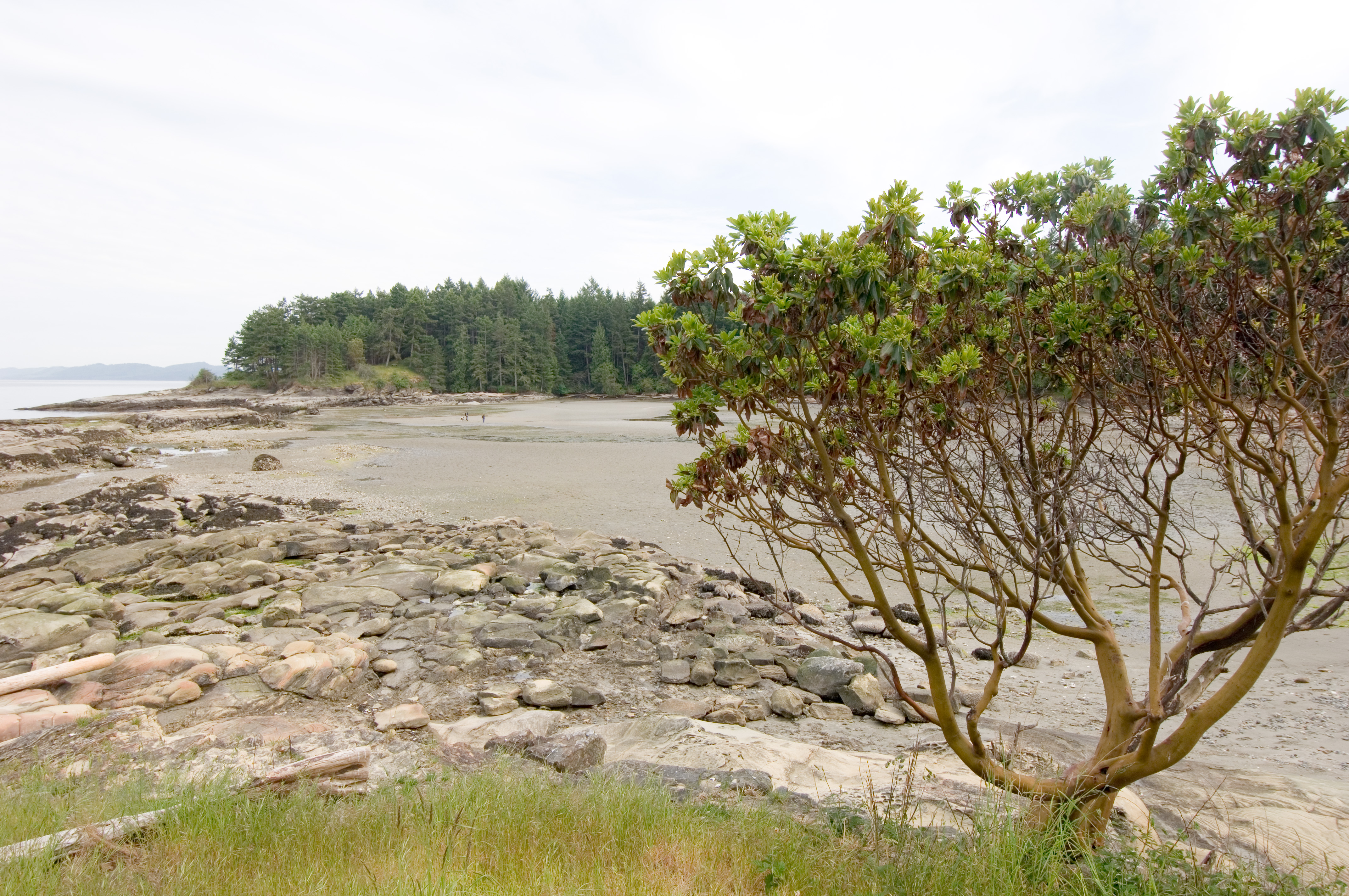 I took this photo. You can find it here/